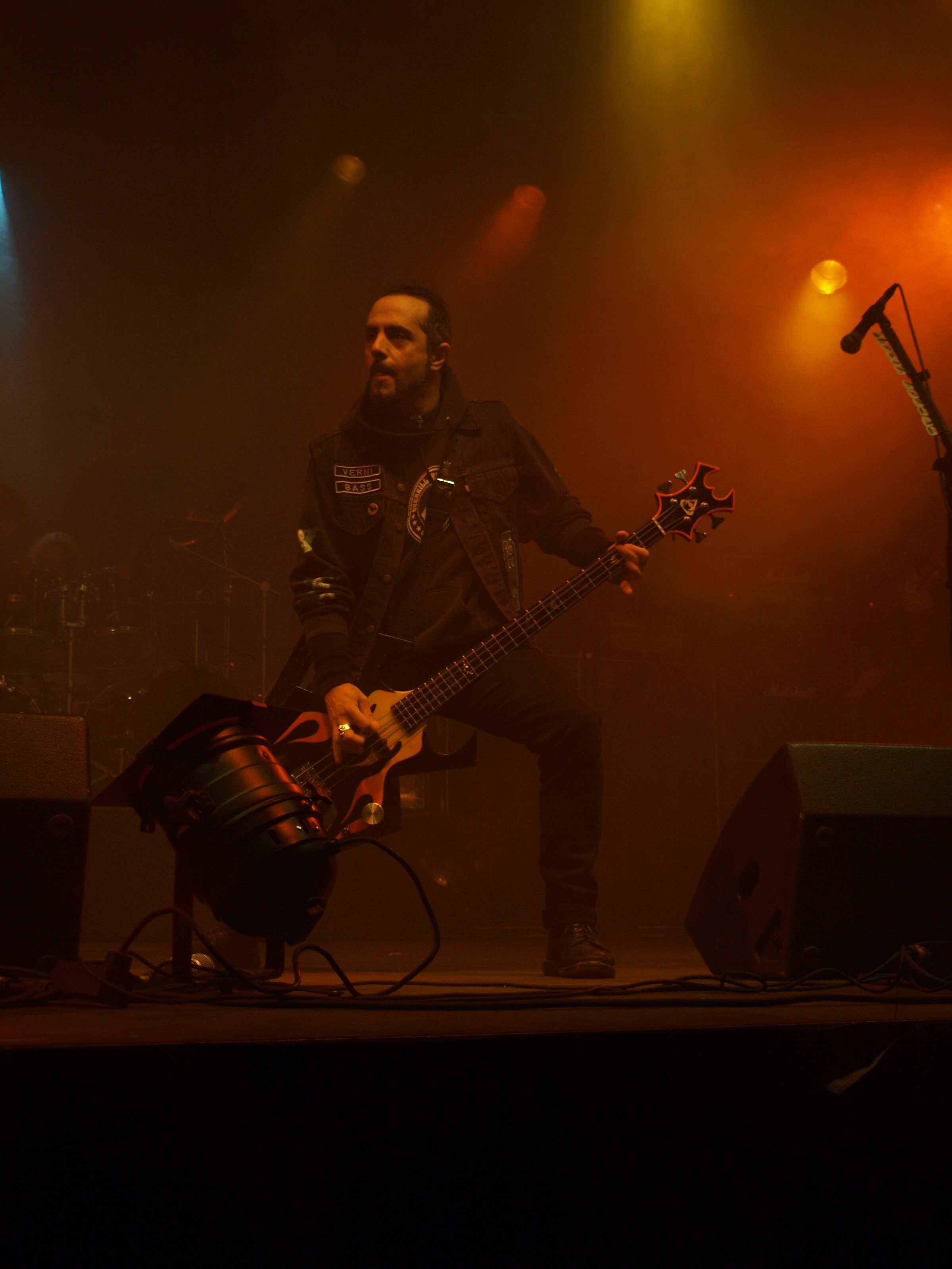 American thrash metal band Overkill live at Jalometalli 2008 in Oulu.